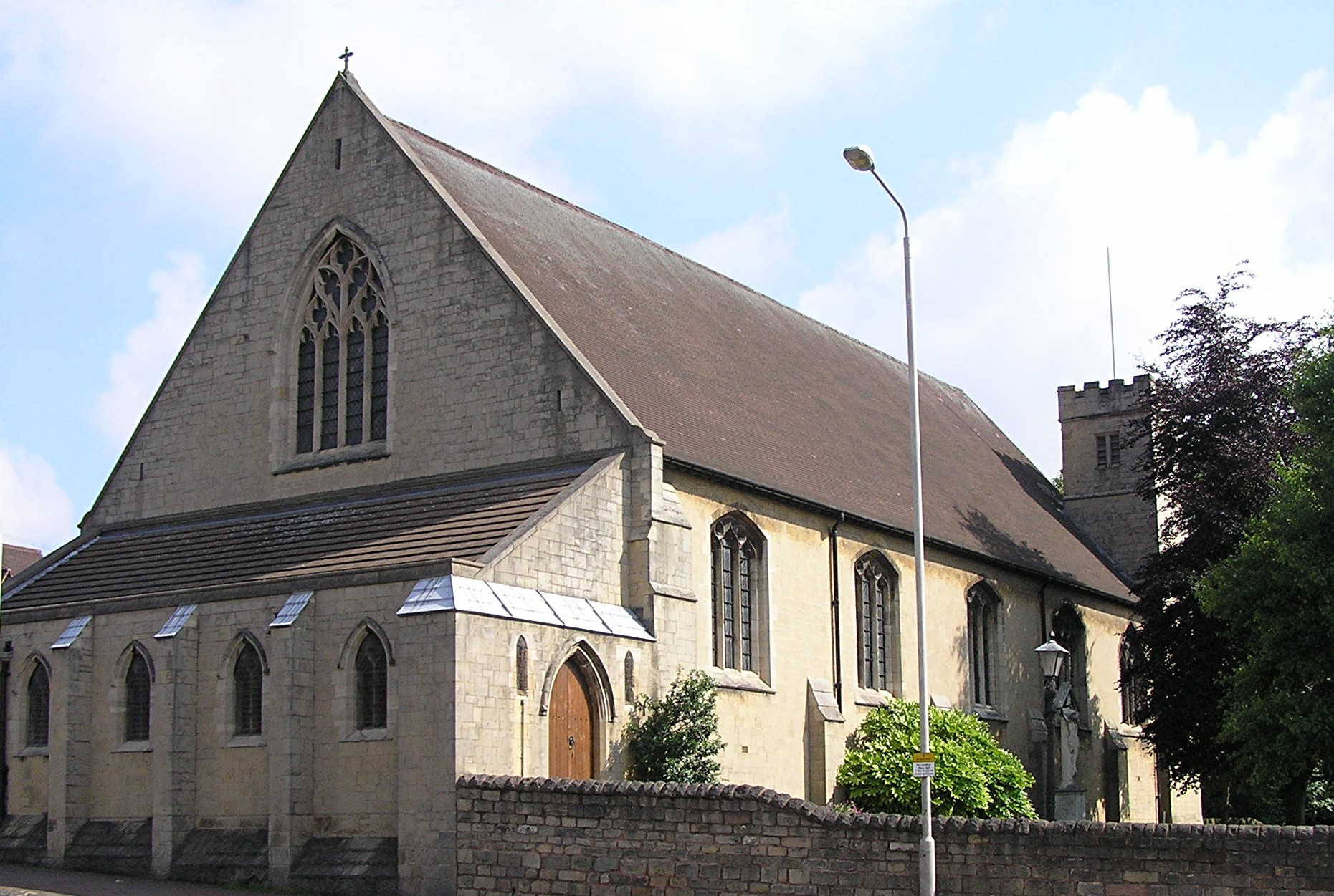 St Mark's Church, Mansfield. Exterior view